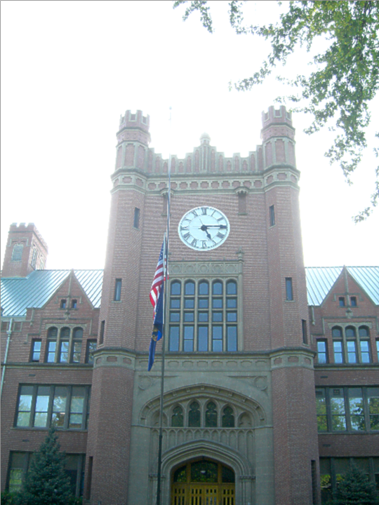 University of Idaho Administration Building Moscow Idaho Photographer: Robbie Giles 2007-05-15 Robbie Giles 03:49, 16 May 2007 (UTC) Category:Images of Idaho Category:Moscow Category:University of Idaho